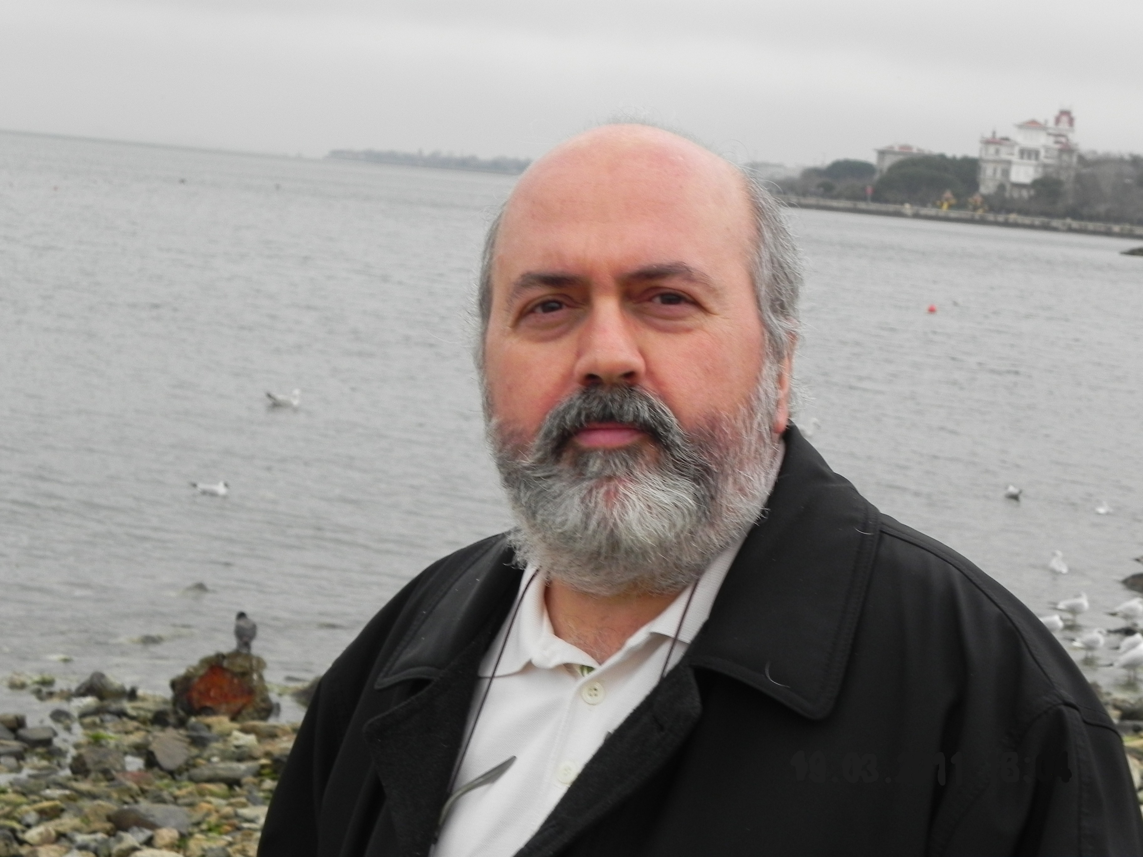 Hikmet Temel Akarsu